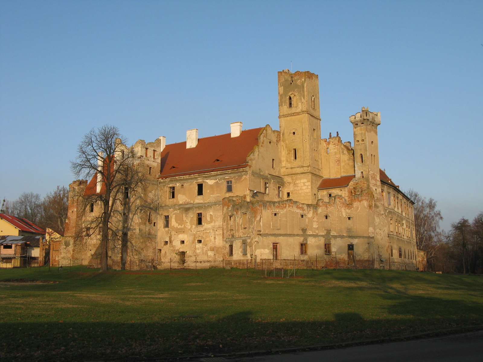 Břeclav Castle, Czech Republic